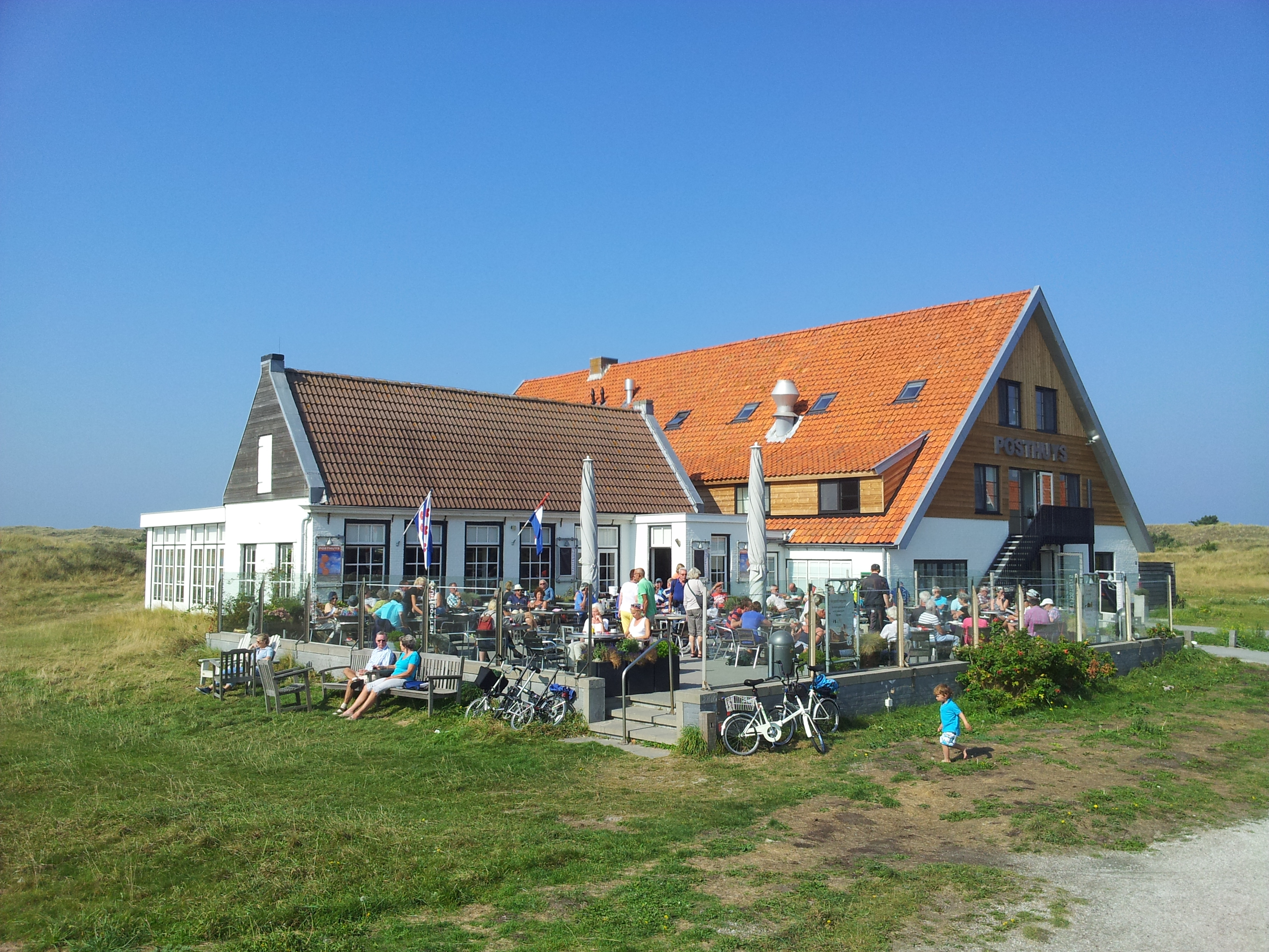 Post House on the island of Vlieland in the Netherlands, where the postilion used to live.